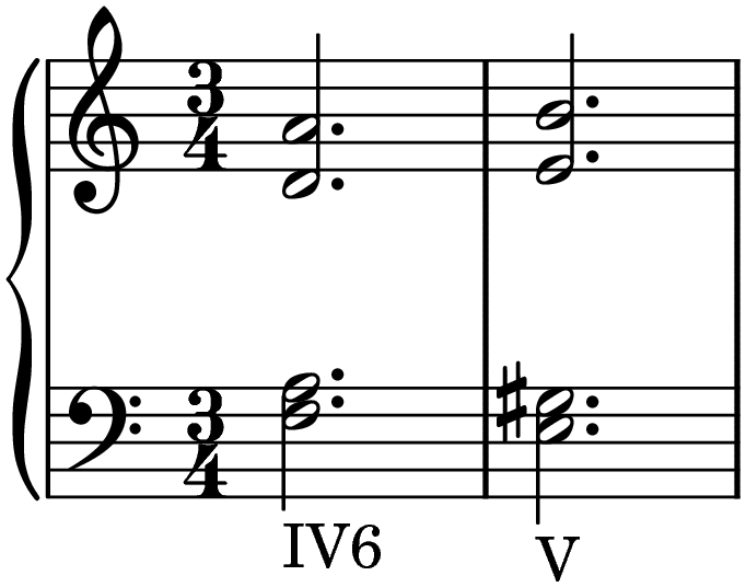 D'Indy Tristan chord IV6-V small